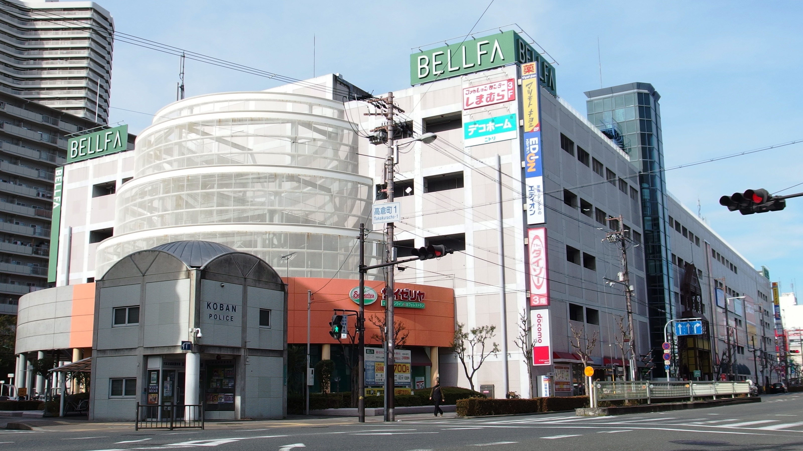 Bellfa Miyakojima Shopping Center in Osaka, Osaka Prefecture, Japan